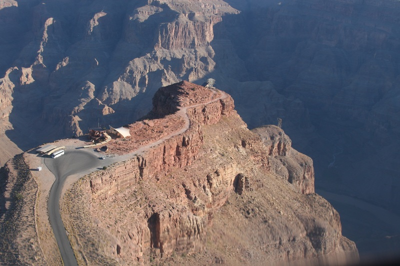 Guano Point - a popular vantage point on the West Rim of the Grand Canyon